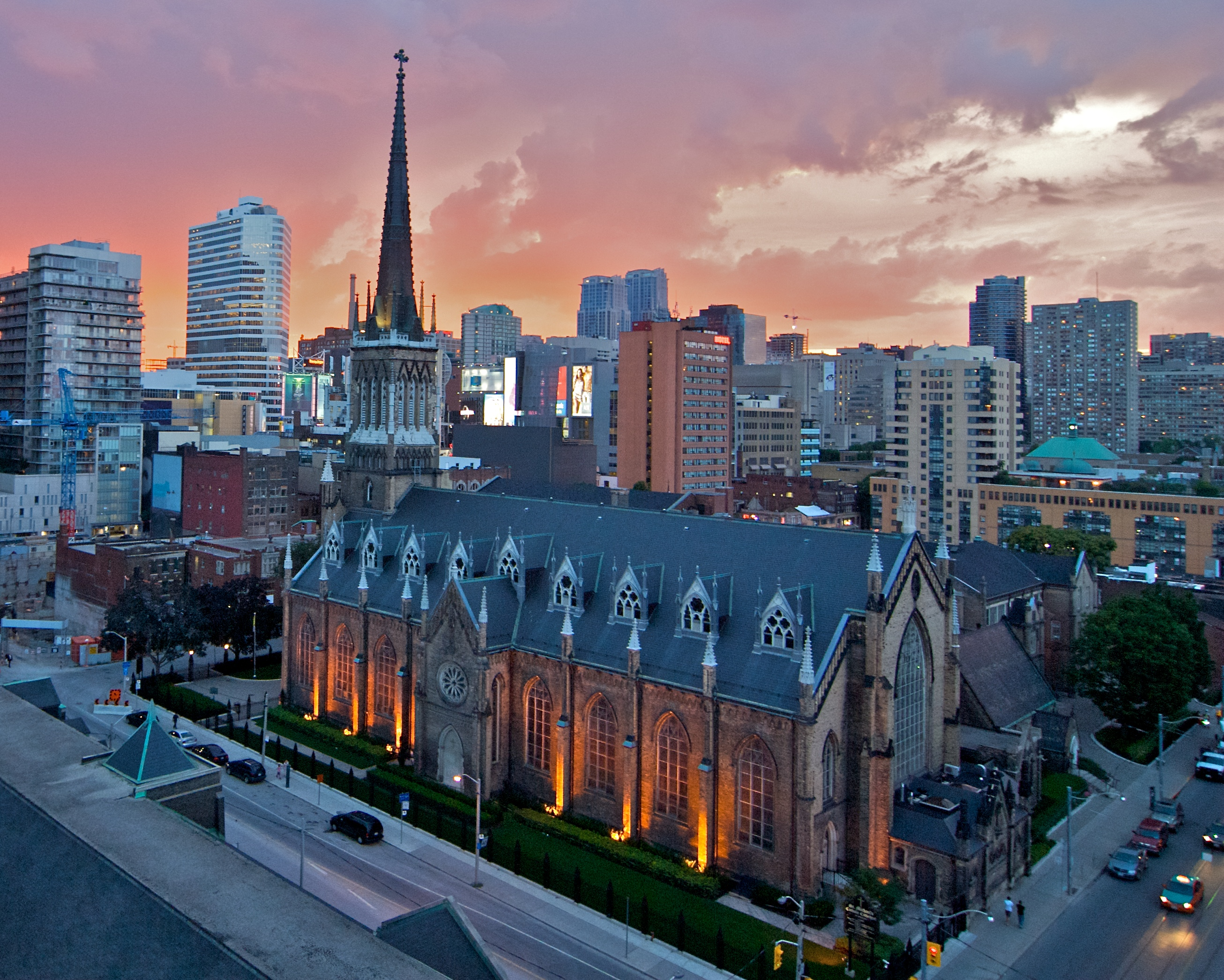 St. Michael's Cathedral at sunset. Toronto, Canada.